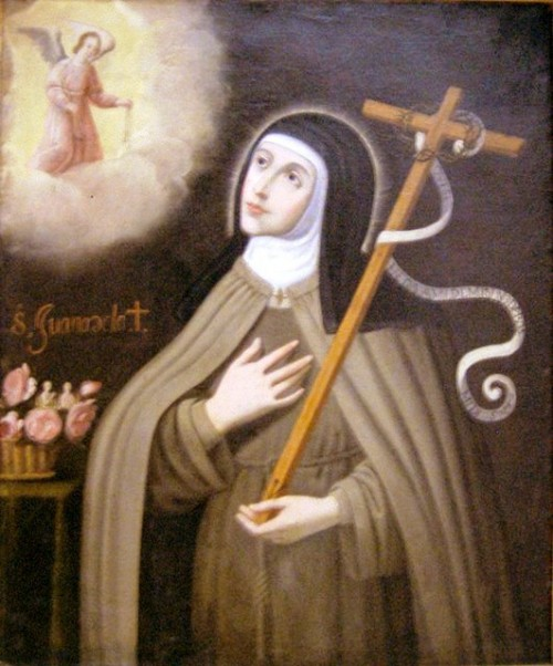 Painting with venerable Joan of the Cross Vázquez, franciscan tertiary nun, from Cubas de la Sagra, Madrid, Spain